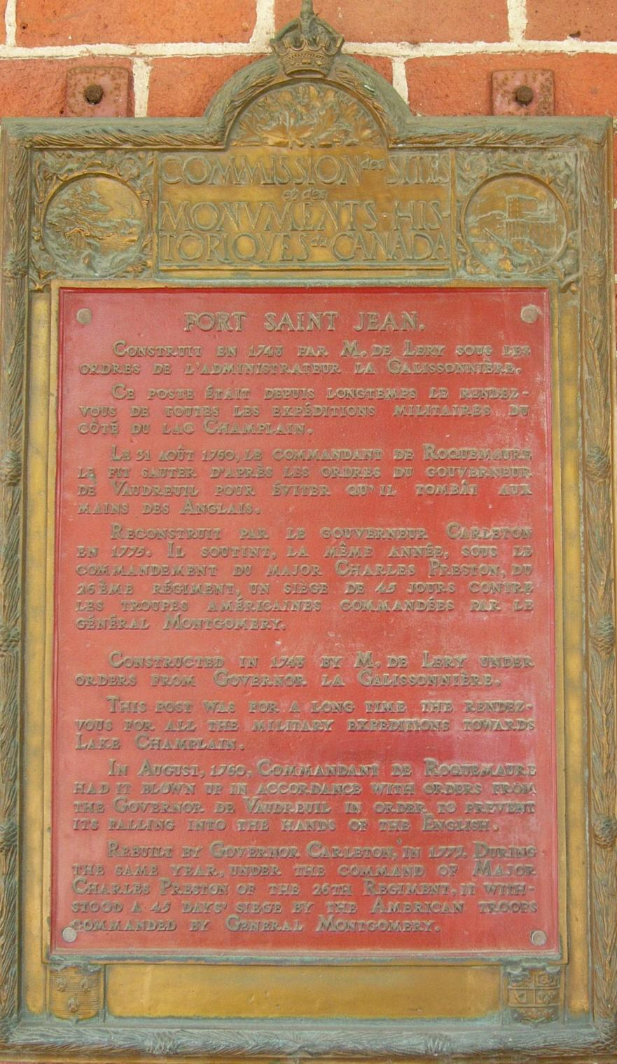 Commission des Monuments Historiques du Canada Fort Saint Jean Construit en 1743 par M. de Léry sous des ordres de d'administrateur la Galissonnière. Ce poste était depuis longtemps le rendez-vous de toutes les expéditions militaires du côté du Lac Champlain. Le 31 Août 1759, le Commandant de Roquemaure le fit sauter d’après les ordres du Gouverneur de Vaudreuil pour éviter qu’il tombât aux mains des Anglais. Reconstruit par le Gouverneur Carleton en 1775, Il soutint, la même année, sous le commandement du Major Charles Preston, du 26ième Régiment, un siège de 45 jours contre les troupes Américaines Commandées par le Général Montgomery. Commission des Monuments Historiques du Canada Fort Saint Jean Constructed in 1743 by M. de Léry under orders from Governor la Galissonnière. This post was for all the military expeditions towards Lake Champlain. In August, 1760, Commandant de Roquemaure had it blown up in accordance with orders from the Governor de Vaudreuil in order to prevent its falling into the hands of the English. Rebuilt by Governor Carleton, in 1773. During the same year, under the command of Major Charles Preston of the 26th Regiment, it withstood a 45 day siege by the American troops commanded by General Montgomery.